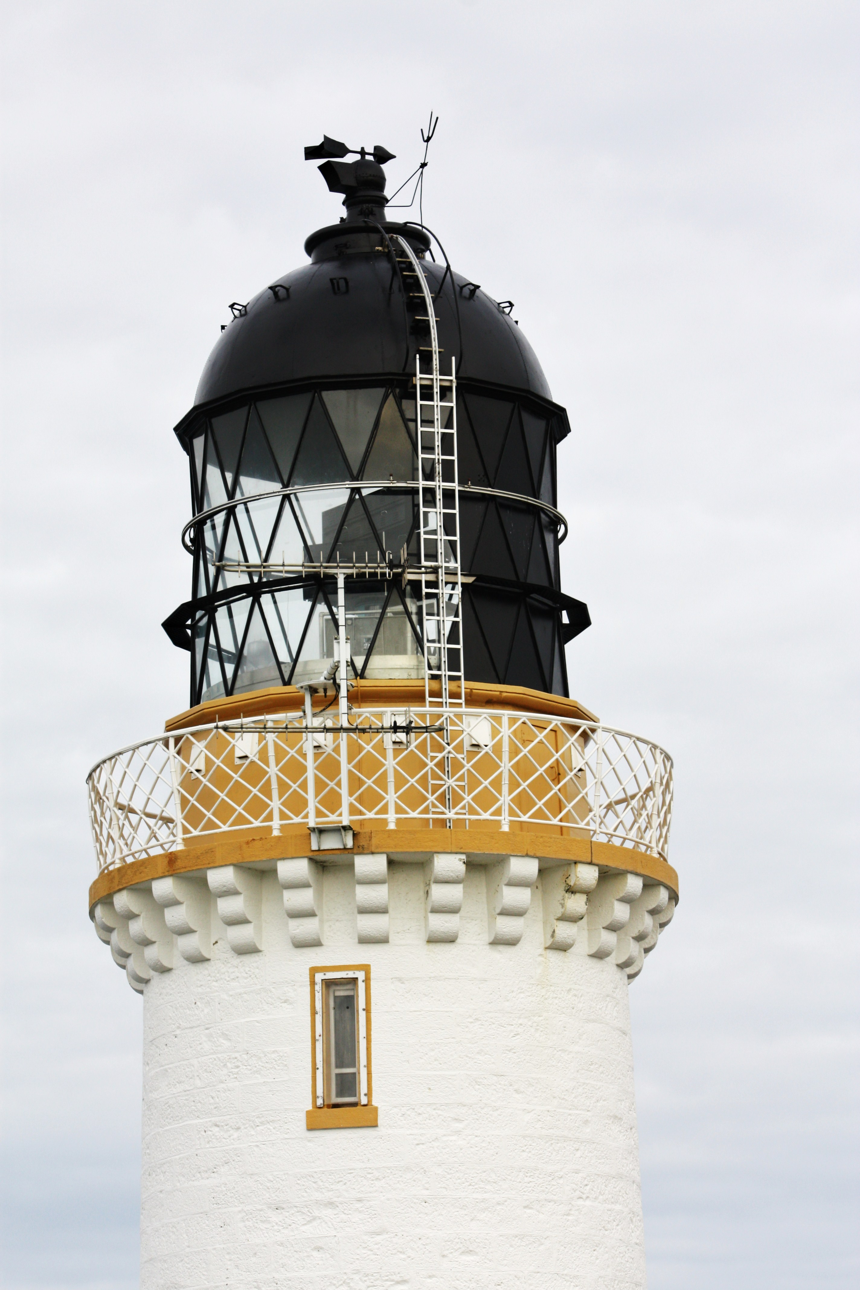 Dunnet Head, Highland, Scotland.